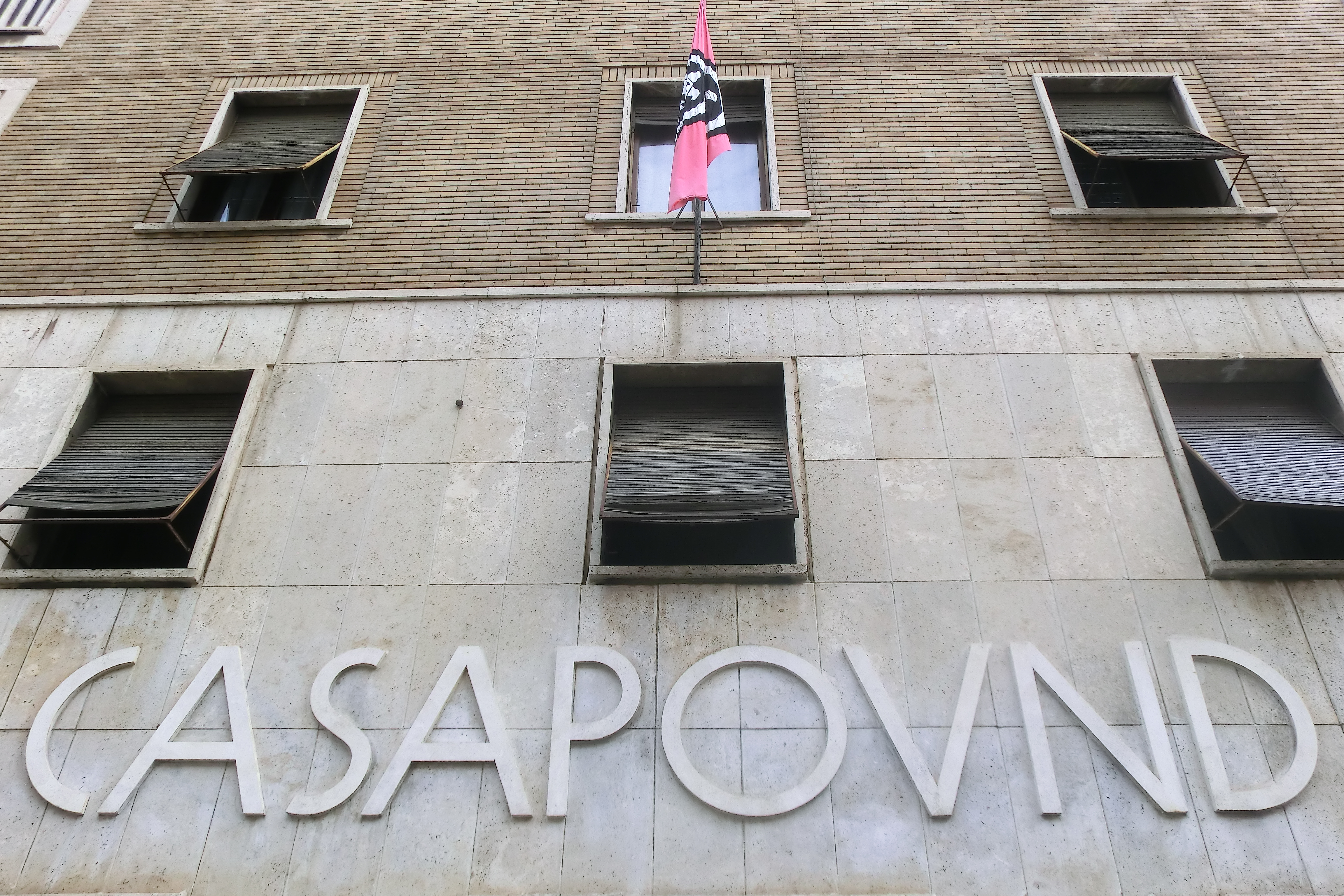 Photo of CasaPound in Rome, via Napoleone III, n° 8. CasaPound is a former governative building occupied by the homonymous social association of fascist ispiration and trasformed in a occupation with abitative finalities (O.S.A. is the italian acronym).